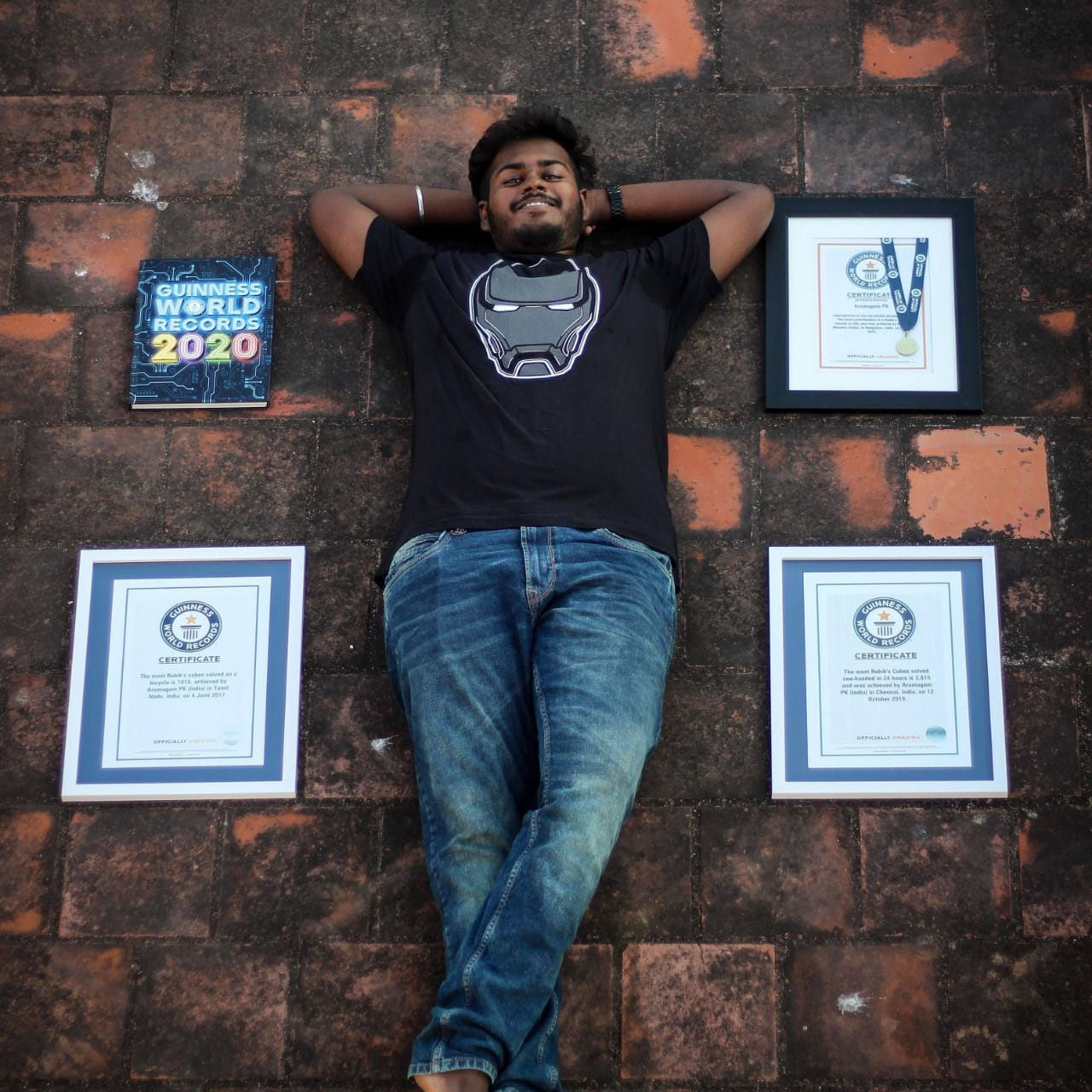 Arumugam PK with his word records